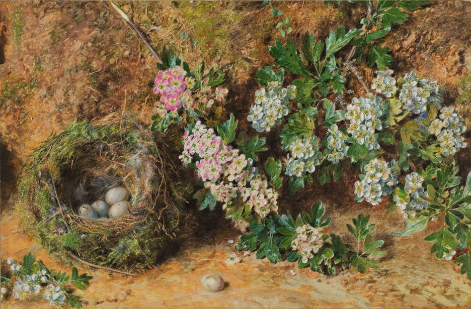 Chaffinch Nest and May Blossom, . watercolor on paper by William Henry Hunt (1790-1864), c.1845, the Courtauld Gallery, London